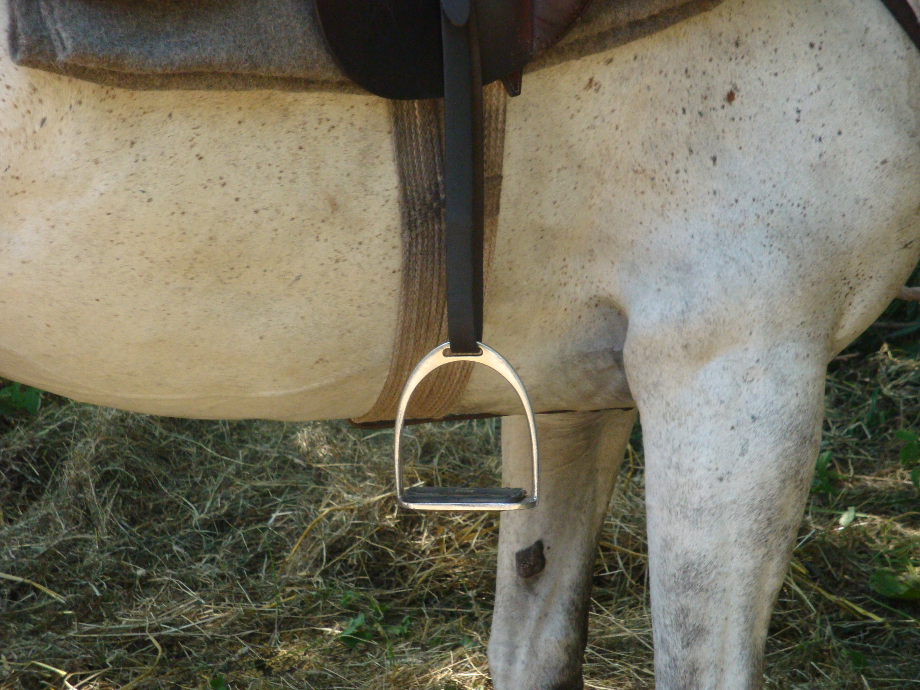 Stirrup of uhlan tack